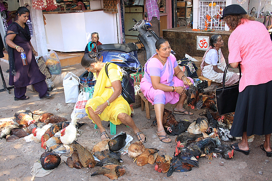 At Mapusa market in Goa, India